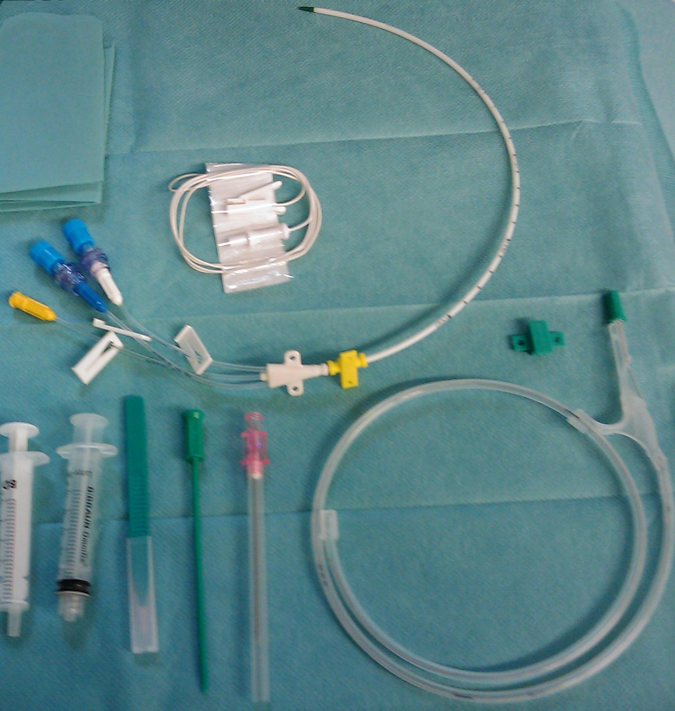 CVC